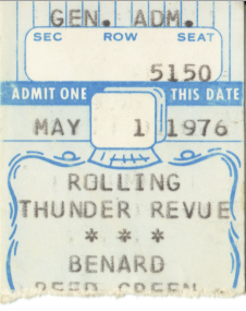 Ticket stub from Rolling Thunder Revue, University of Southern Mississippi. This was the last concert on this tour.